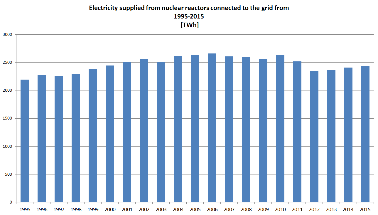 Production of nuclear power plants